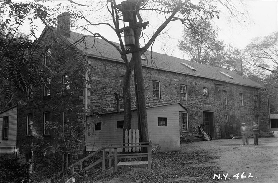 Title: Lorillard Snuff Mill, Botanical Gardens, Bronx Park, Bronx, Bronx, NY Creator(s): Historic American Buildings Survey, creator Medium: Measured Drawing(s): 3(18 x 24 in.) Photo(s): 2 (4 x 5 in. and 5 x 7 in.) Photo Caption Page(s): 1 Reproduction Number: [See Call Number] Call Number: HABS NY,3-BRONX,9- Repository: Library of Congress, Prints and Photographs Division, Washington, D.C. 20540 USA Notes: * Survey number HABS NY-462 * National Register of Historic Places NRIS Number: 77000935 Subjects: * NEW YORK--Bronx--Bronx Collections: * Historic American Buildings Survey/Historic American Engineering Record/Historic American Landscapes Survey Part of: Historic American Buildings Survey (Library of Congress) Contents: Photograph caption(s) 1. Historic American Buildings Survey, Arnold Moses, Photographer, October 20, 1936, EXTERIOR VIEW. 2. PERSPECTIVE VIEW OF MAIN ELEVATION